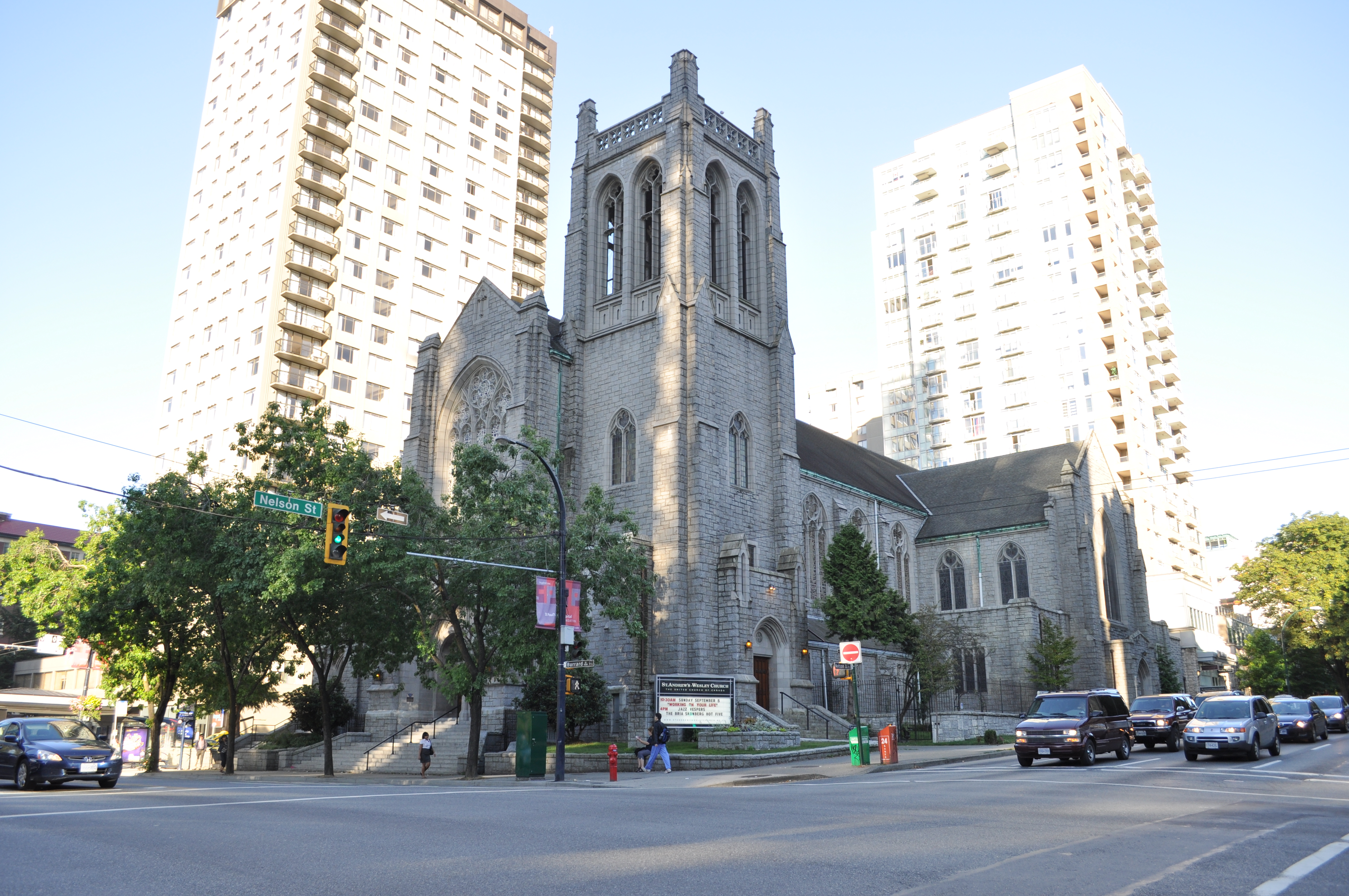 St. Andrews-Wesley Church, Vancouver, BC.